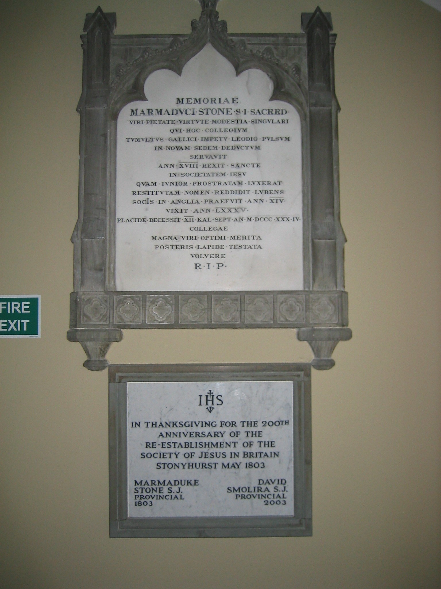 Jesuit Restoration plaque